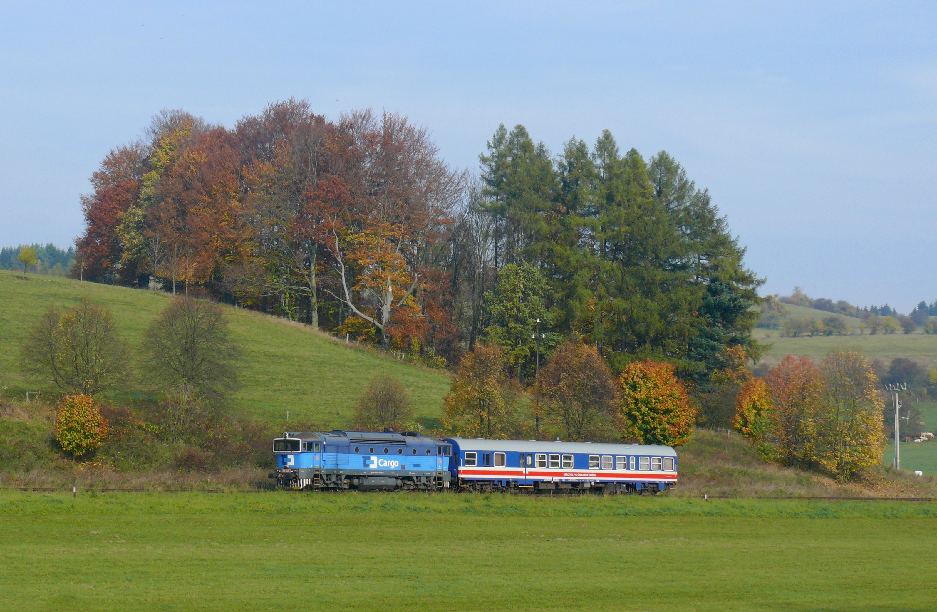 Contact-less track recording car. This track recording car with an inertial measuring system is designed for measuring, assessing and recording the following track geometry and related parameters: track gauge, curvature, alignment, cross level, twist, longitudinal level, rail corrugation, rail profile (orian system), vehicle response analysis system (vra). (Czech Republic).